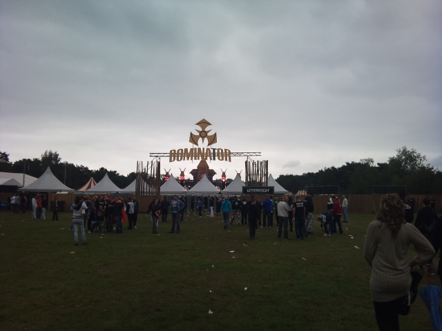 Dominator 2011 entry.